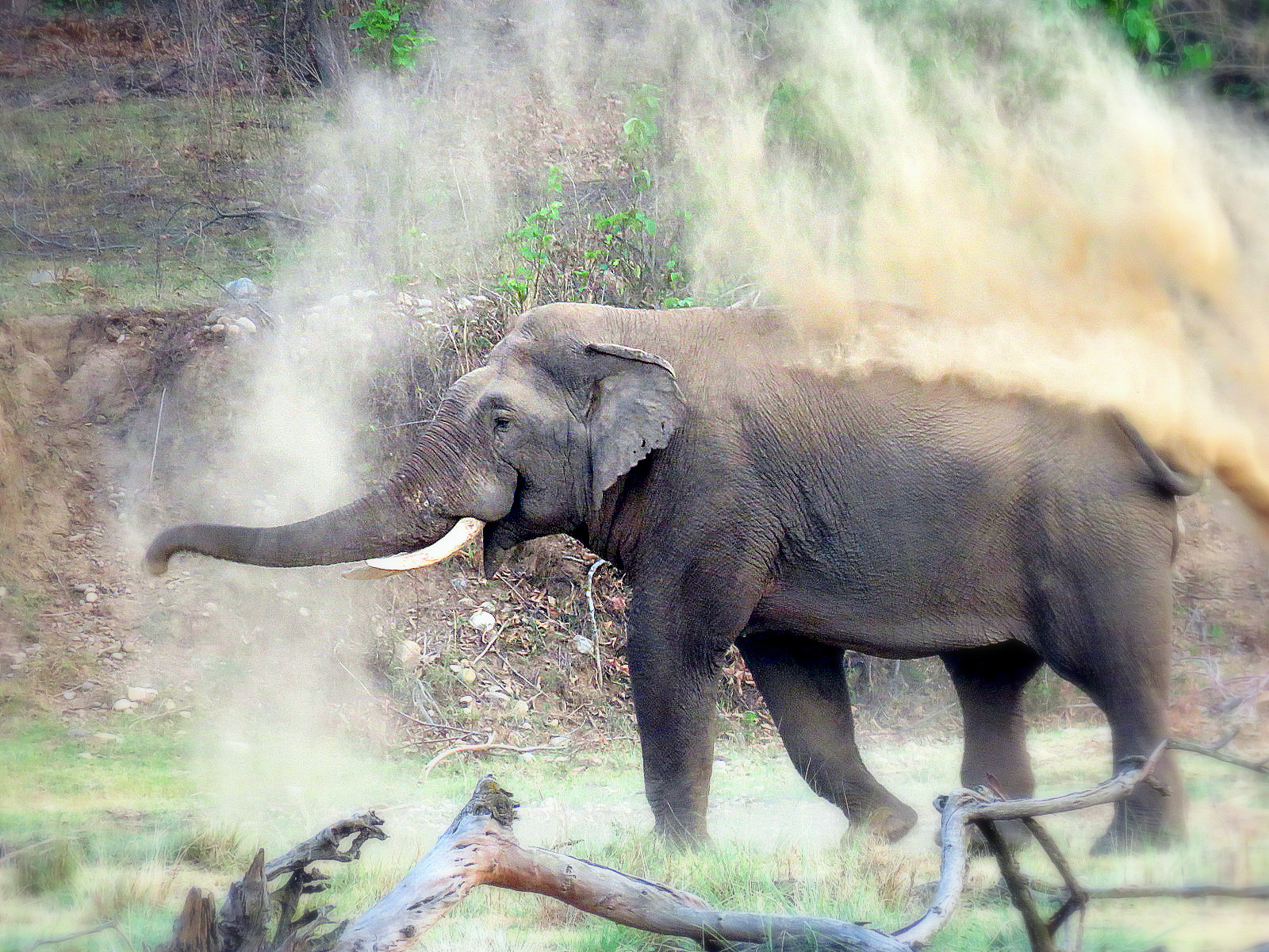 Indian elephant (Elephas maximus indicus). Tusker. Female. Dust bathing. Rajaji National Park, Uttarakhand, India.